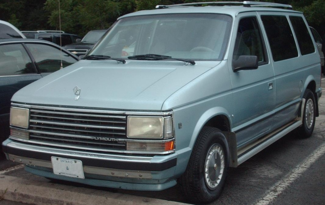 1987-1988 Plymouth Voyager photographed in Niagara Falls, Ontario, Canada.